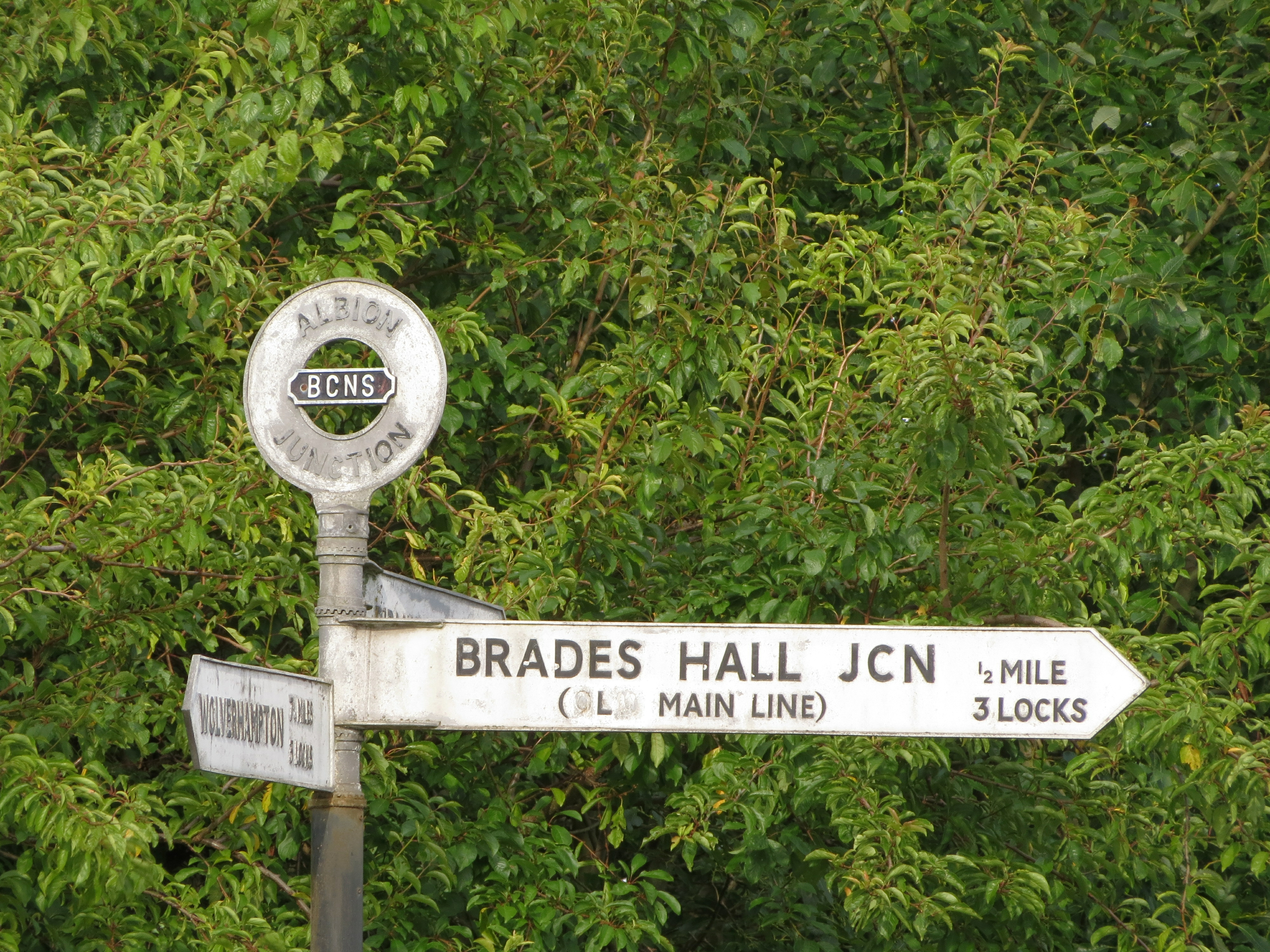 Picture taken from towpath of the Birmingham and Wolverhampton New Mainline canal at Albion Junction showing details of the signpost at the junction of the Gower Branch.